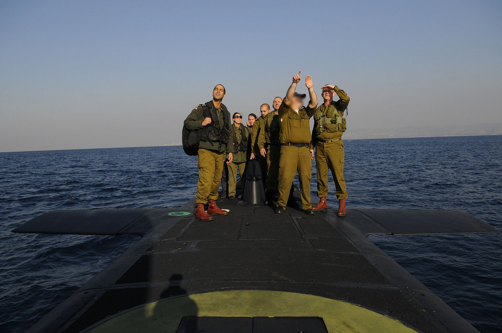 November 29, 2011 As part of his tour of Israel's naval bases, Chief of Staff Lt. Gen. Benny Gantz met with combat soldiers stationed on a Navy missile boat. Speaking with the soldiers, Chief of Staff Lt. Gen. Gantz emphasized the Navy's challenge in fighting the smuggling of weapons into the Gaza Strip and upholding the naval blockade on Gaza. He also expressed appreciation for the soldier's service in the past year. The Israel Defense Forces Facebook page The Israel Defense Forces blog Follow us on Twitter